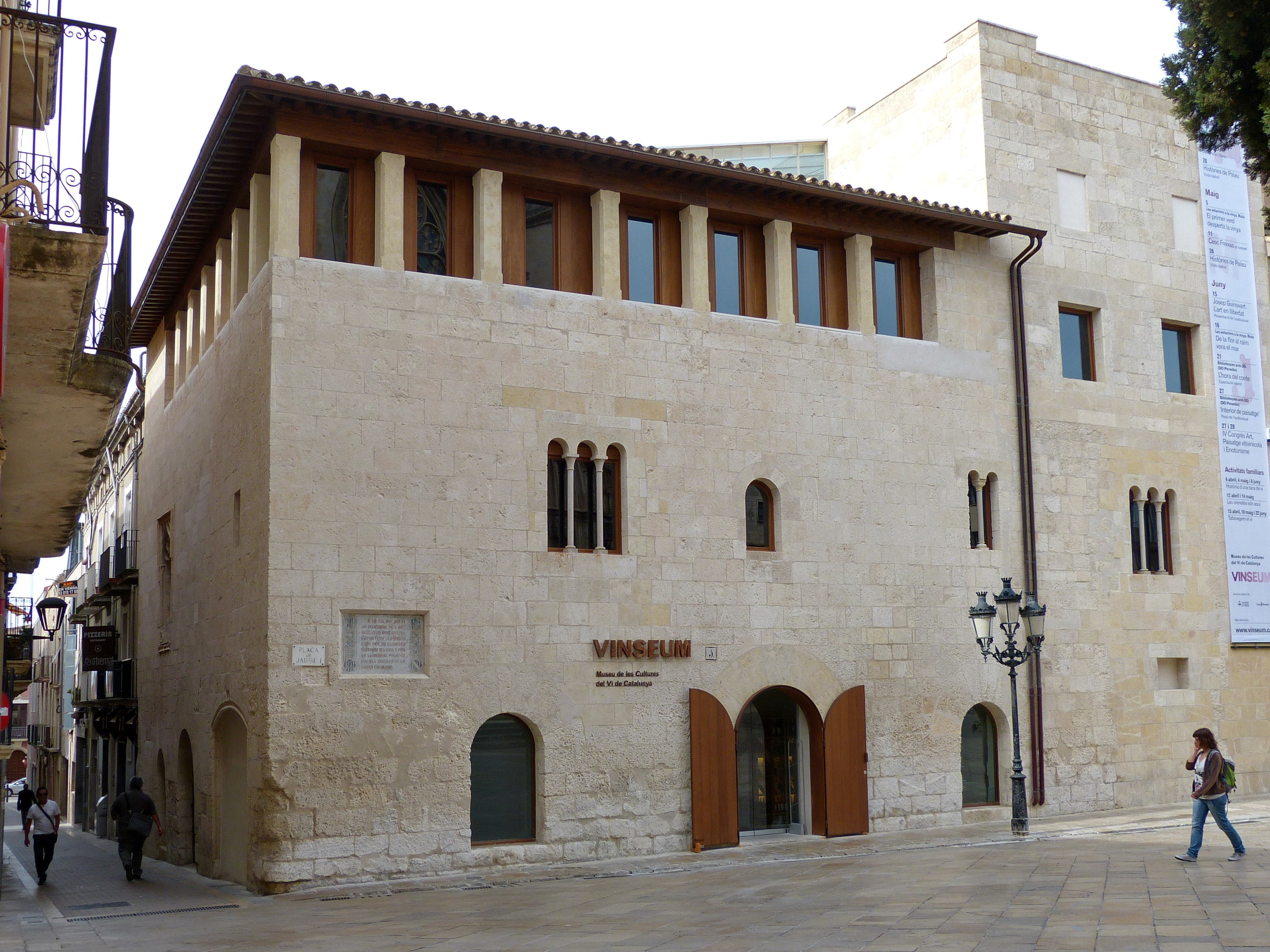 Royal Palace of Vilafranca del Penedès restored in 2012